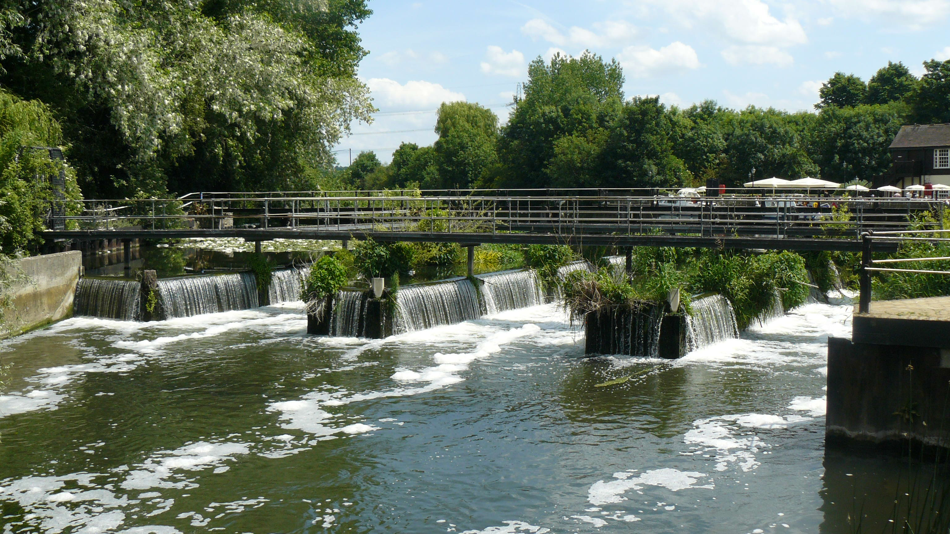 Jamsta 18:13, 27 September 2006 (UTC)